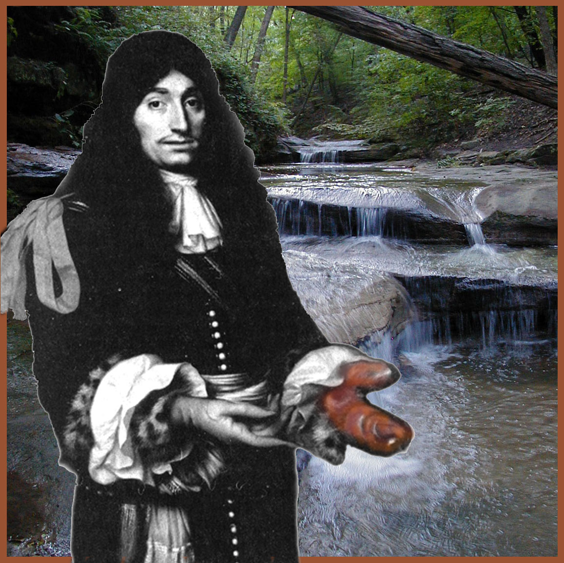 Henry de Tonti stands at the high end of Tonti Creek, at Starved Rock State Park, Illinois. I took the creek photo, and the Tonti portrait was painted by Ben Brantly in 1995. Starved Rock park is rich with the footprints of Henri de Tonti. Tonti Canyon is narrow with two 80 foot waterfalls. There is a back canyon with 3 more waterfalls that only flow with snow melt or rain run off. It's a beautiful place. Tonti Canyon connects to LaSalle Canyon, which boasts the largest water flow in its series of cascades and waterfalls.